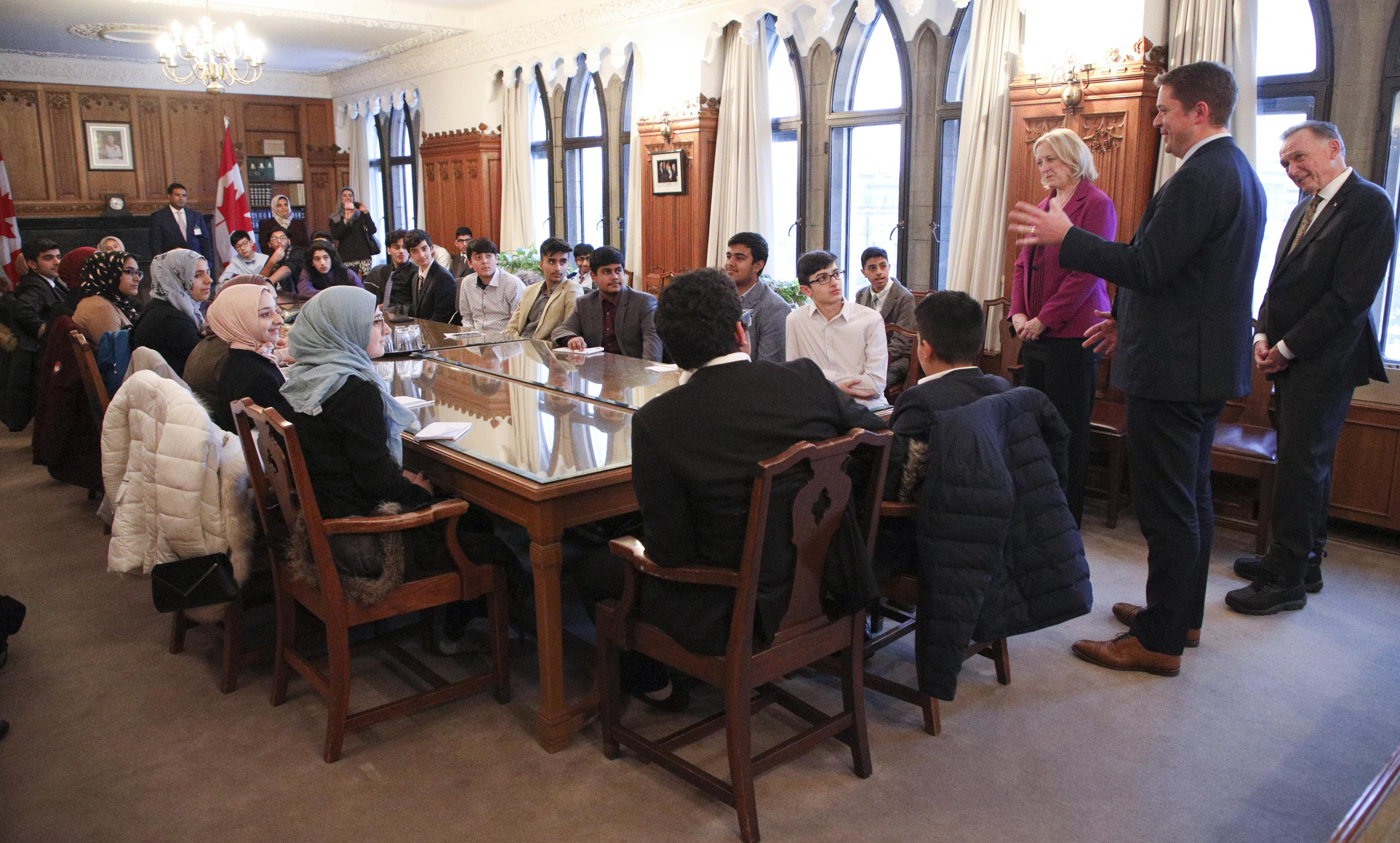 Earlier today Lisa Raitt, Peter Kent and I had the pleasure to welcome students from As-Sadiq Islamic School to Parliament and answer their questions. Thanks for the visit!